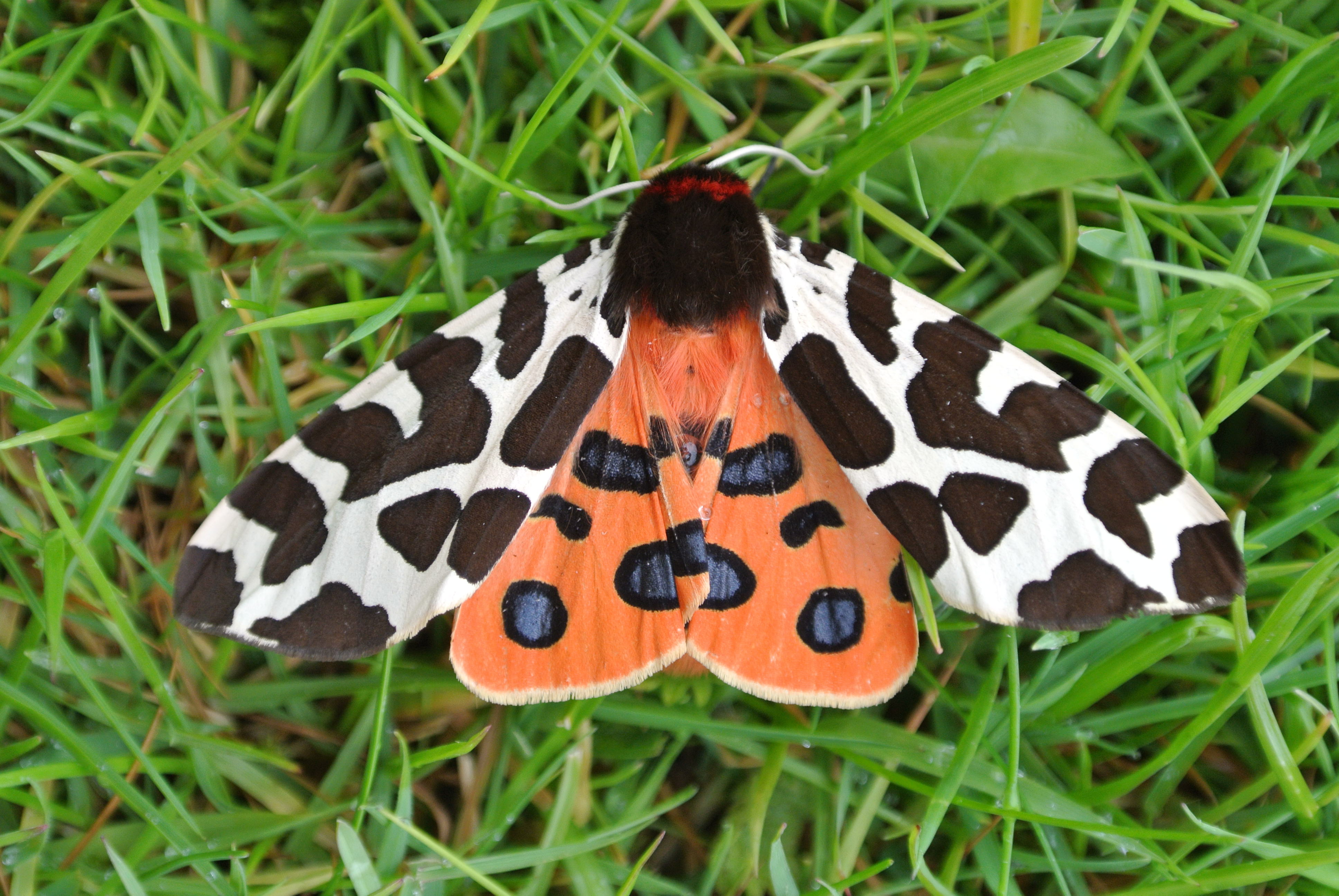 Garden Tiger Moth (Arctia caja) found in Wester Ross, Scotland